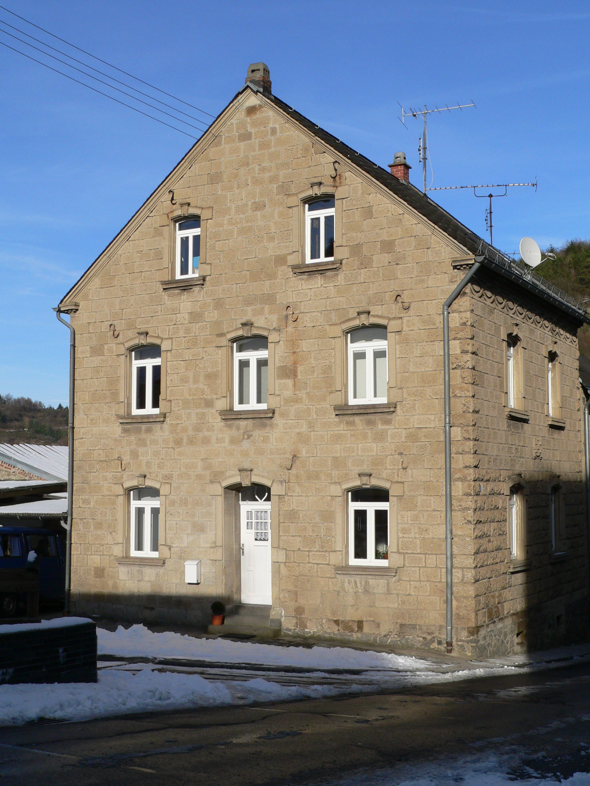 Tuff stone house, Rieden, Eifel District, Germany